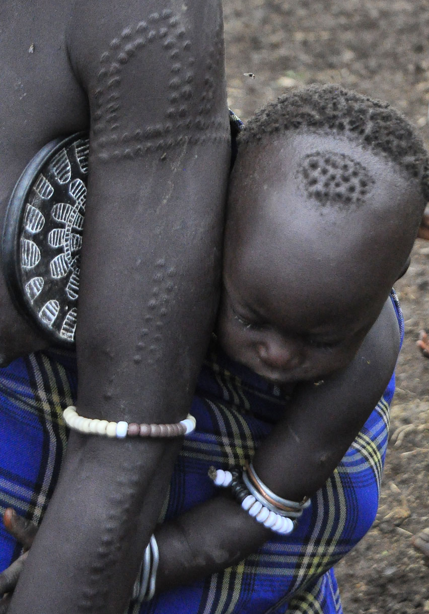 Mursi Tribe, Ethiopia